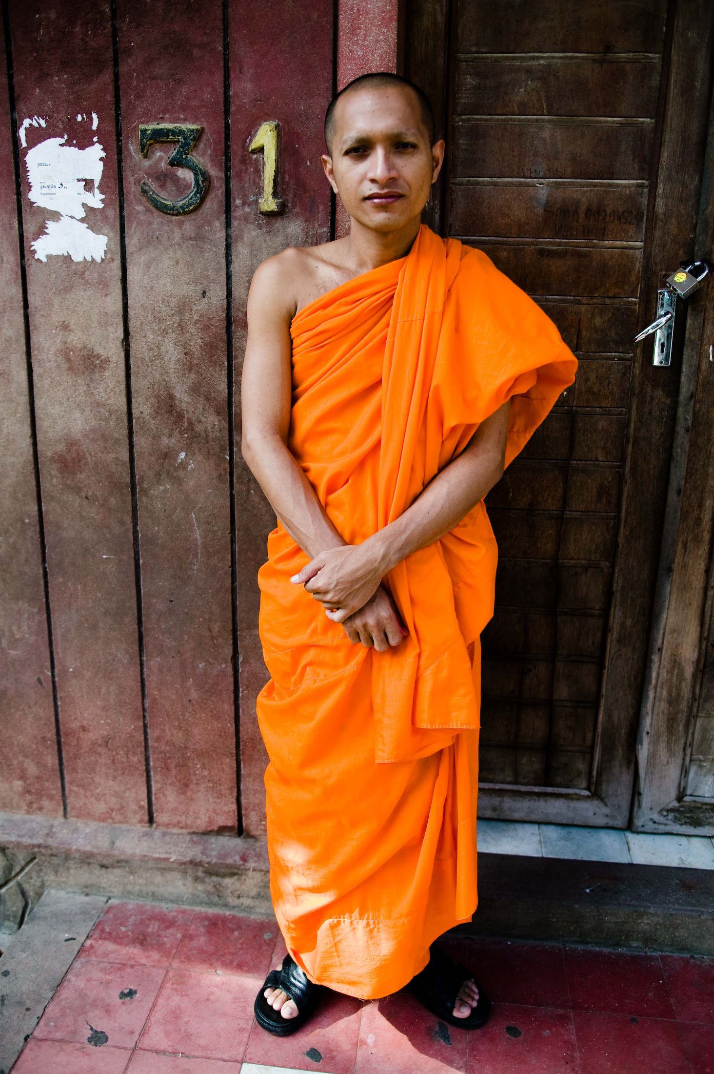 A Buddhist monk in Phnom Penh, Cambodia.